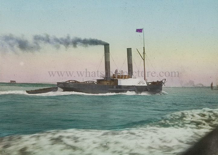 London registered paddle steamer Iona